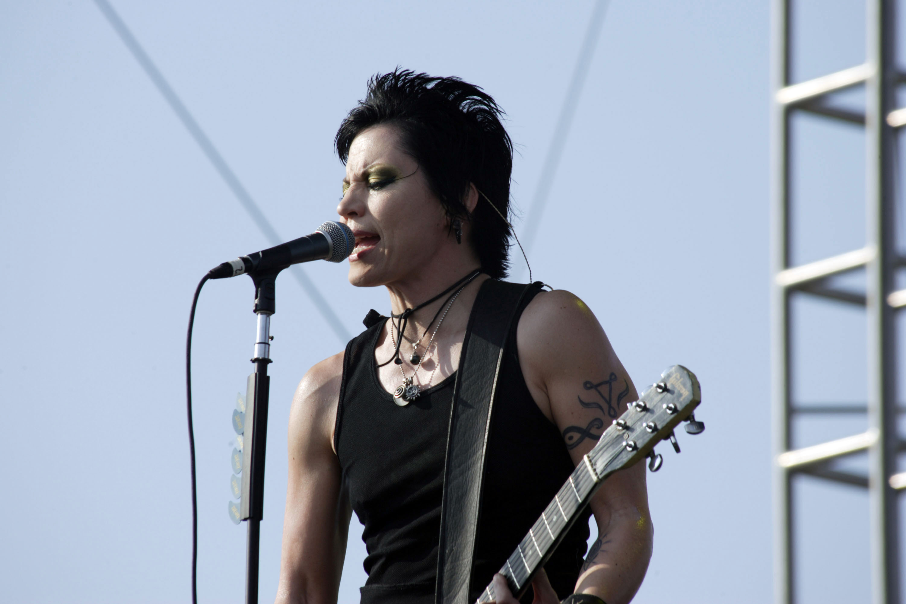 Rock music recording artist Joan Jett and the Blackhearts Band performs on stage for the Tribute to Our Heroes" celebration held at Fort Hood, Texas. The tribute honors US Army (USA) Soldiers who have recently returned from the War on Terrorism, is sponsored by the Morale, Welfare and Recreation (MWR) Department, and will consist of nine hours of live music and entertainment.